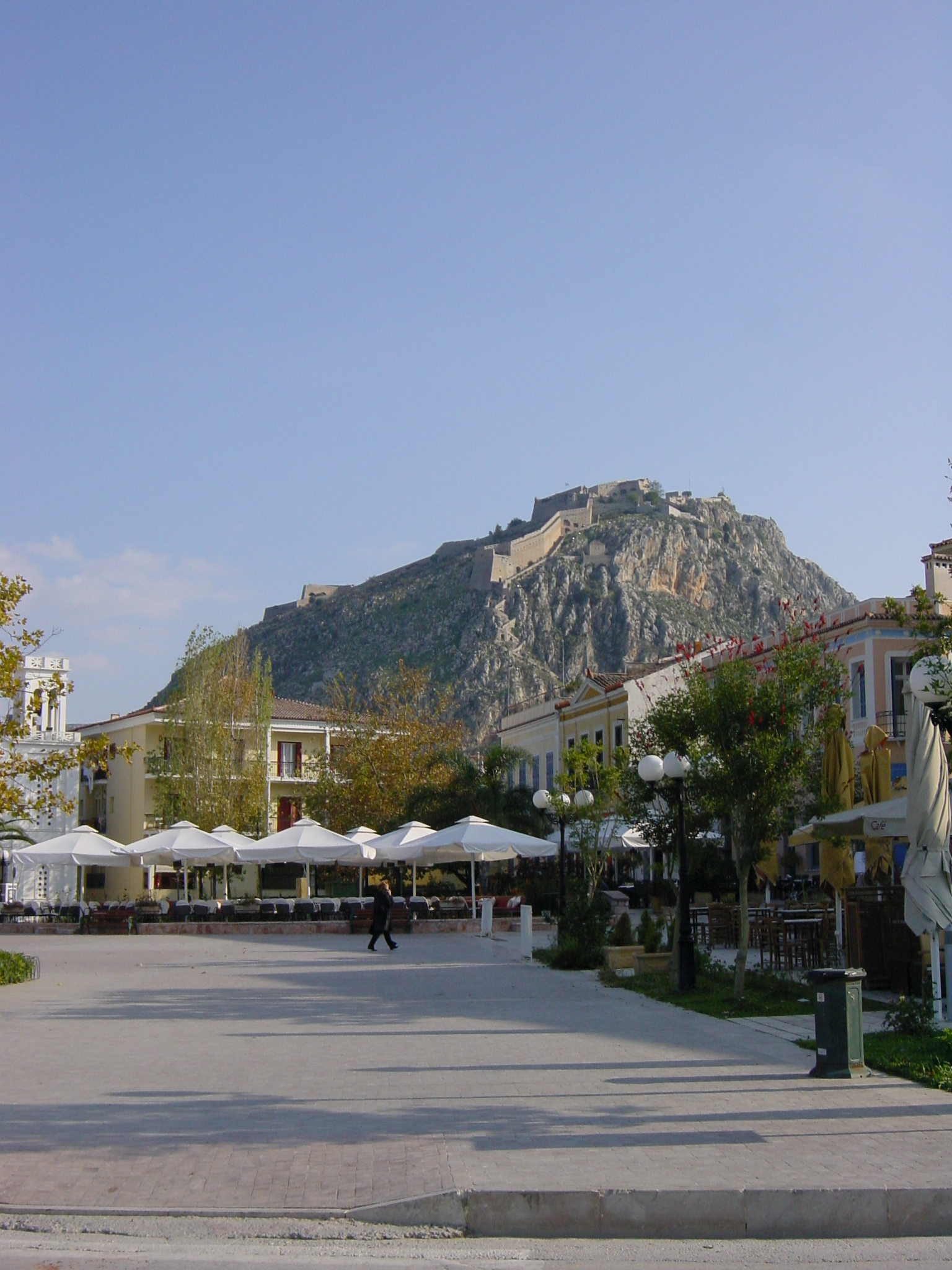 Author: Jan Ceuleers (i.e. me) Description: Palamidi fortress from the waterfront in the town of Nafplio (Peloponnese, Greece). Image taken on 10 November 2005 using Sony DSC-P1 camera.